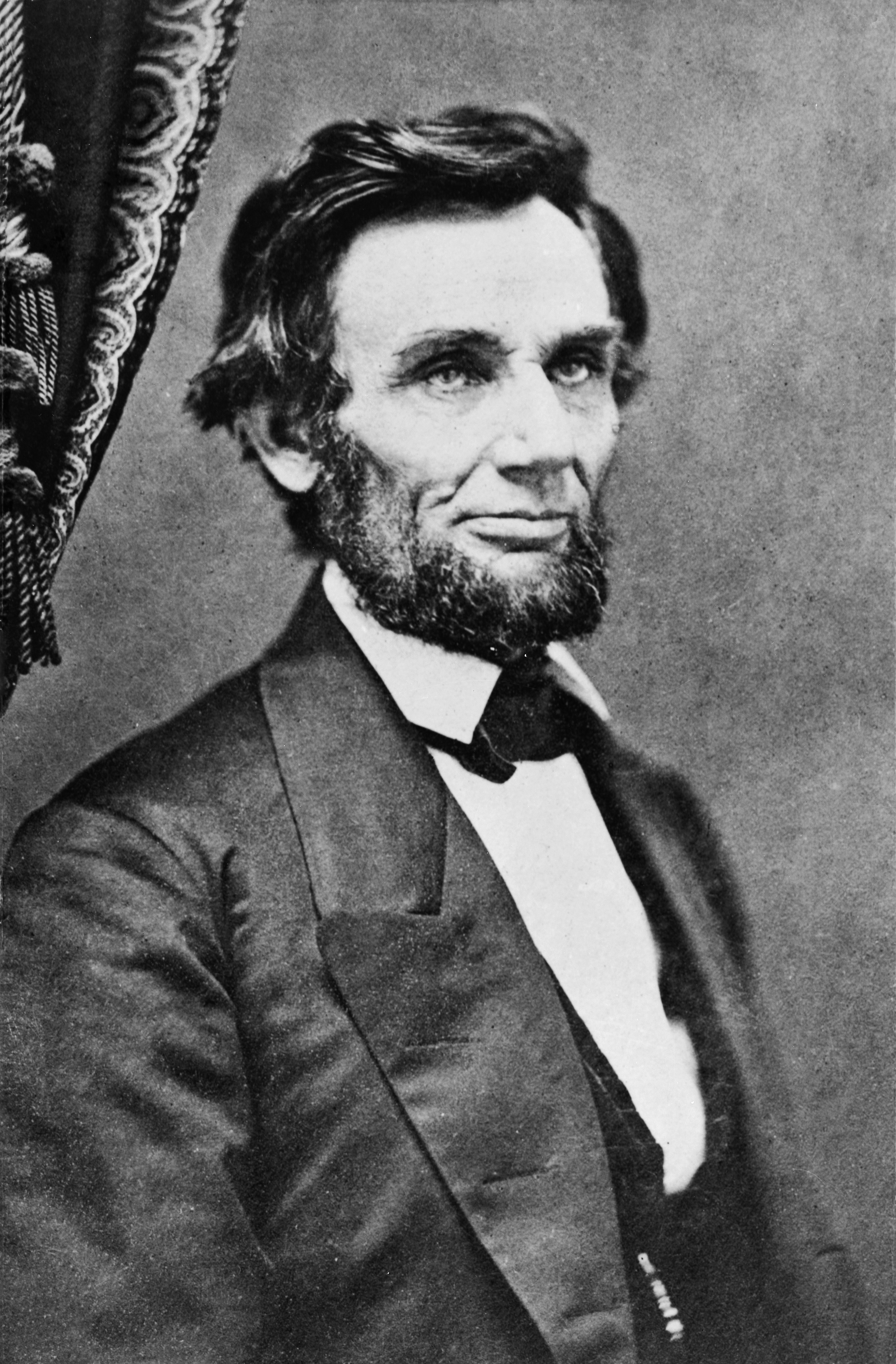 Lincoln, last portrait sitting in Springfield, Illinois, before leaving for Washington, D.C., to assume the presidency